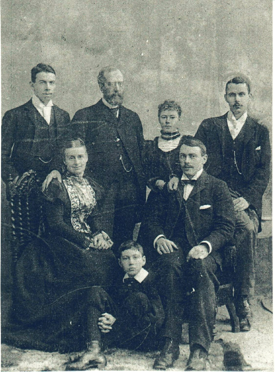 Thomas Andrews with family, including John Miller Andrews, future Prime Minister of Northern Ireland.